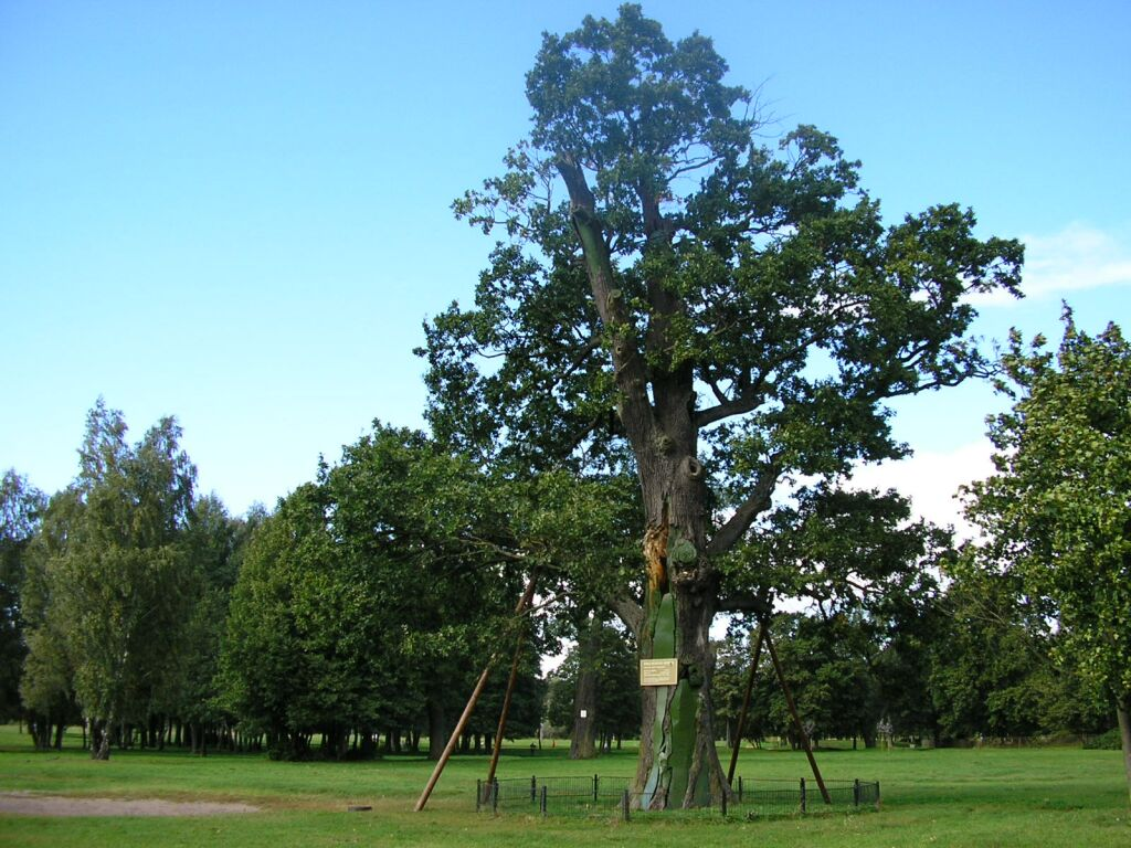 Ebelmuizhas oak